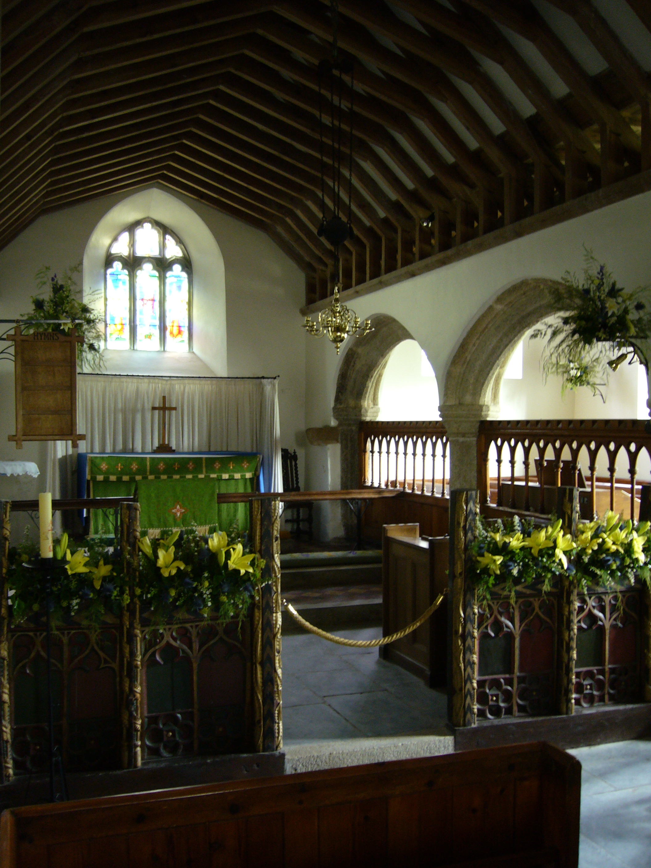 Image: Interior of St Enodoc's Church Location: Trebetherick, Cornwall, England Photograph taken by User: Tom Oates in September 2007. Required attribution is: Photo by Tom Oates.